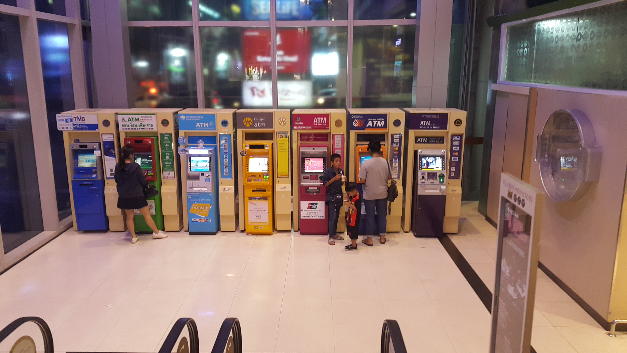 ATM machines of Thai banks in Siam Paragon Bangkok, Thailand